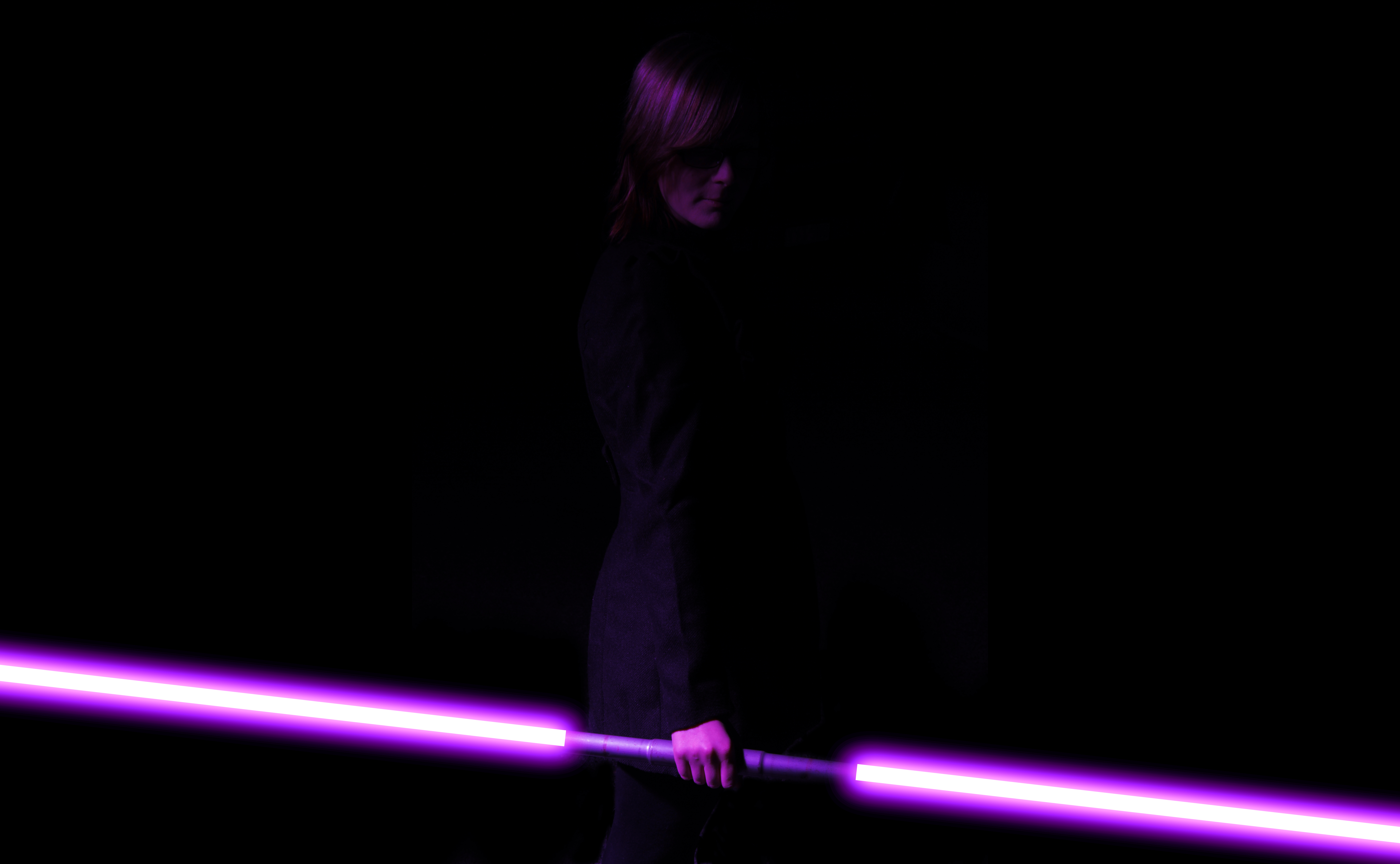 A lightsaber user with a purple lightsaber.